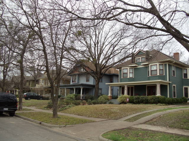 Munger Place Historic District